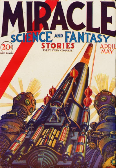 Cover of the April/May 1931 issue of Miracle Science and Fantasy Stories. Artwork is by Elliott Dold.